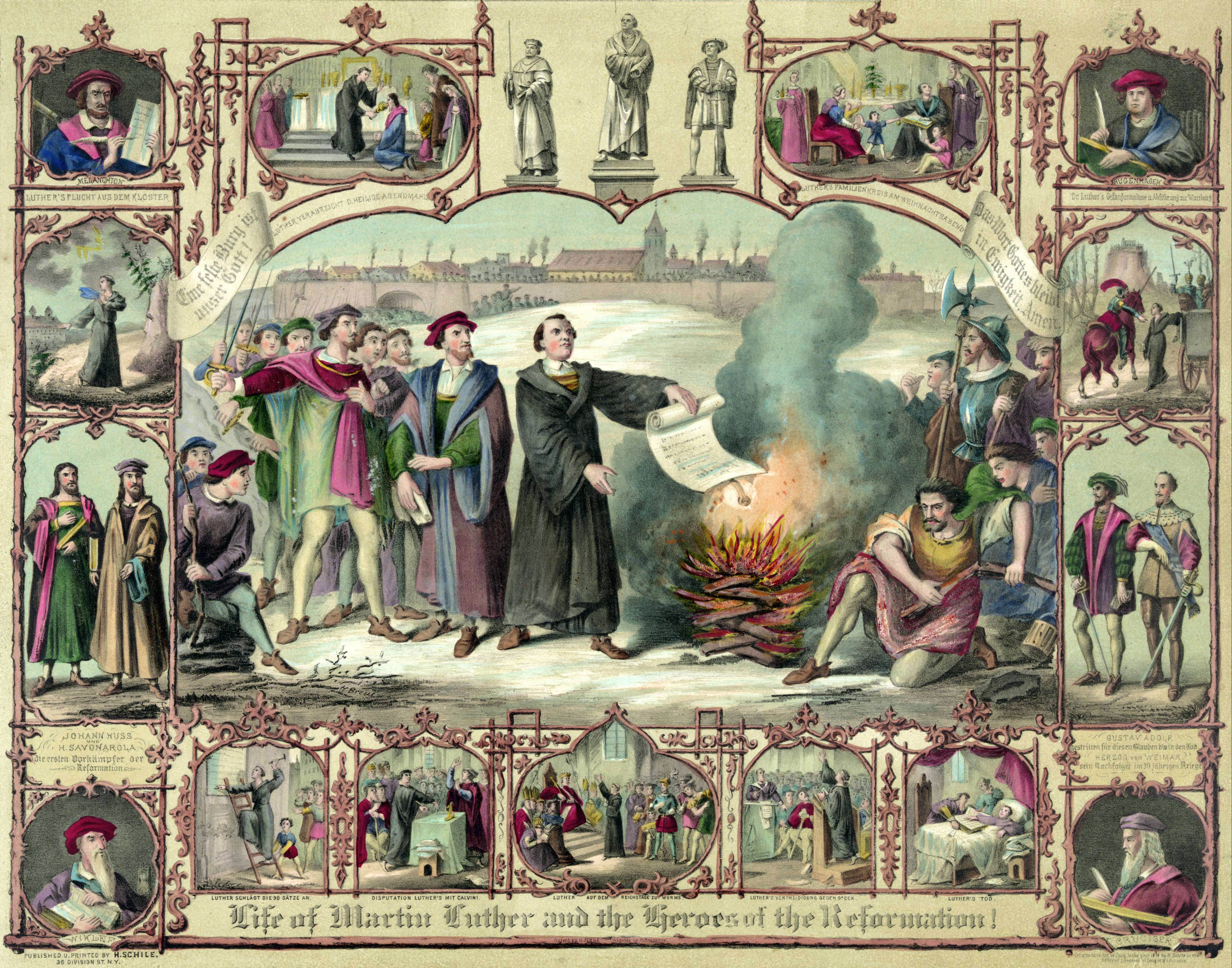 Print shows Luther burning papal bull of excommunication, with vignettes from Luther's life and portraits of Hus, Savonarola, Wycliffe, Cruciger, Melanchton, Bugenhagen, Gustav Adolf, & Bernhard, duke of Saxe-Weimar. 1 print : lithograph, color.